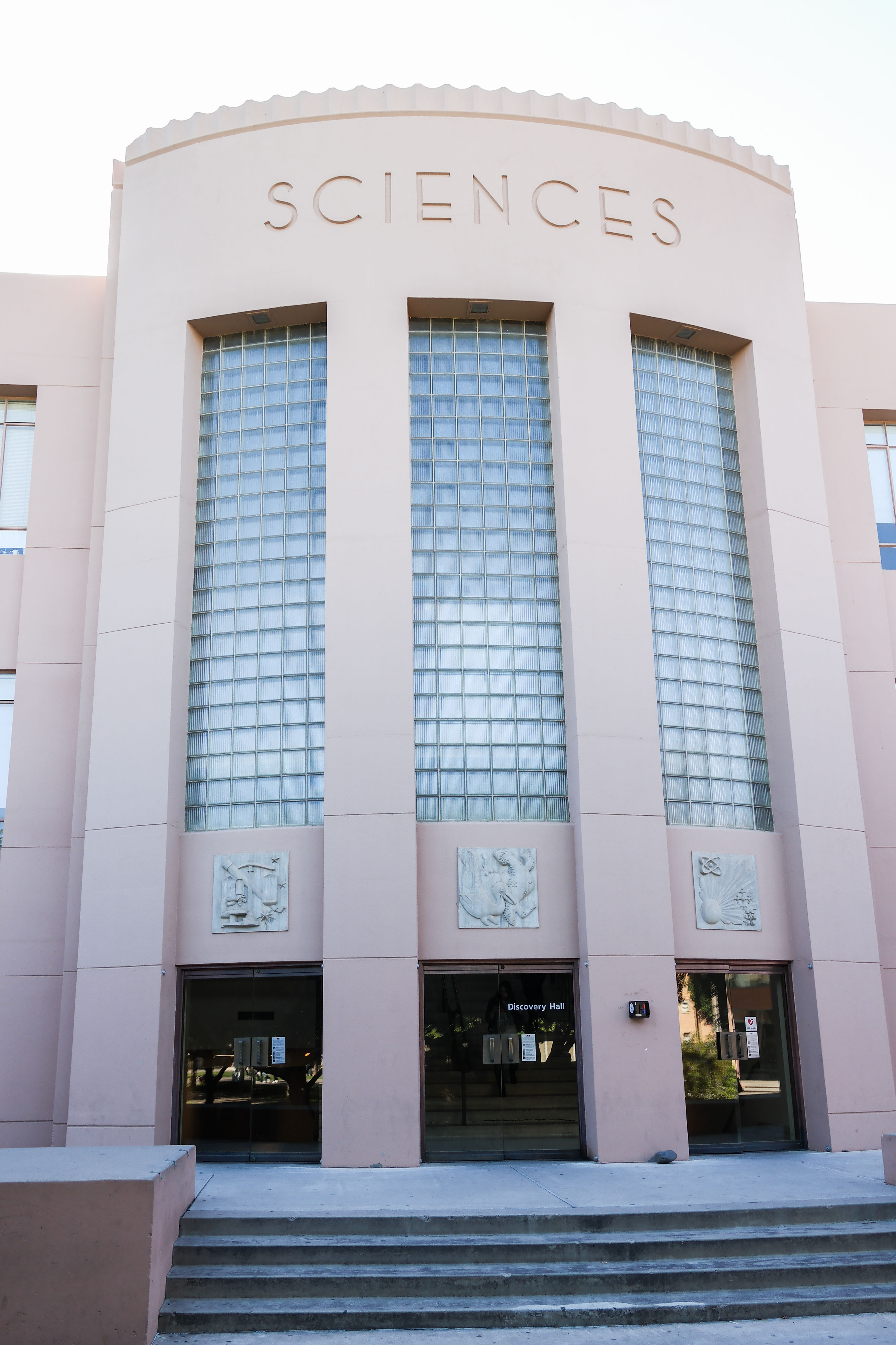 Sciences (Discovery Hall) at Arizona State University, Tempe